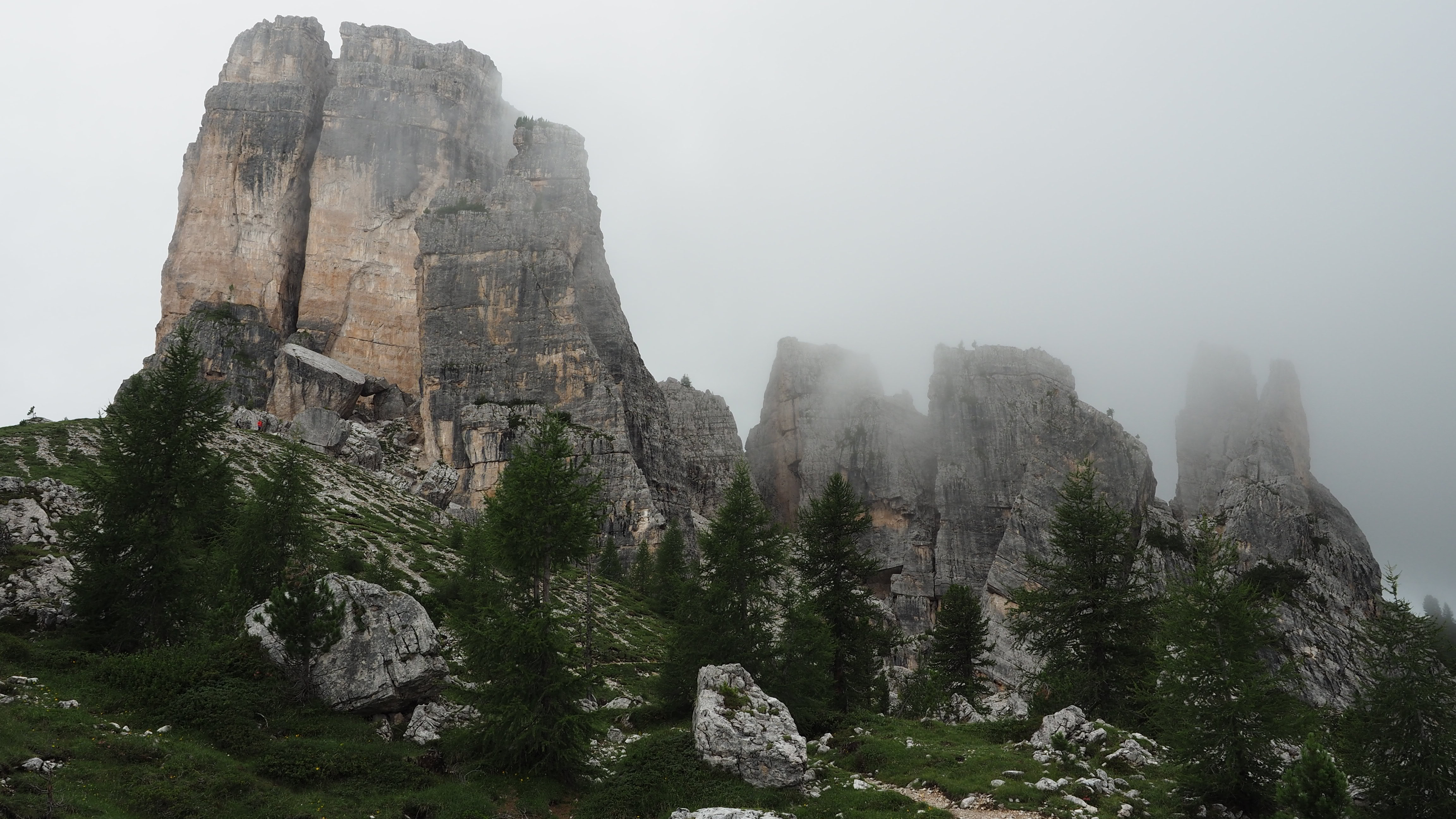 East faces .of Cinque Torri